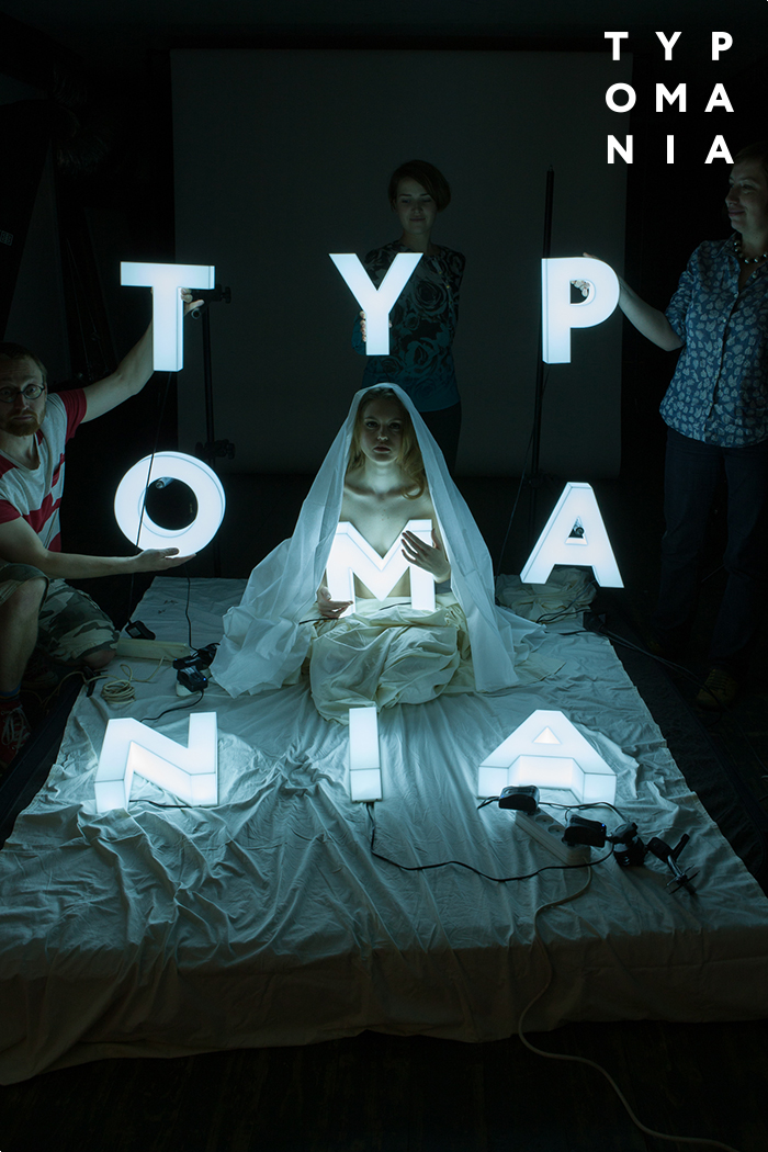 Typomania_light_letters.jpg